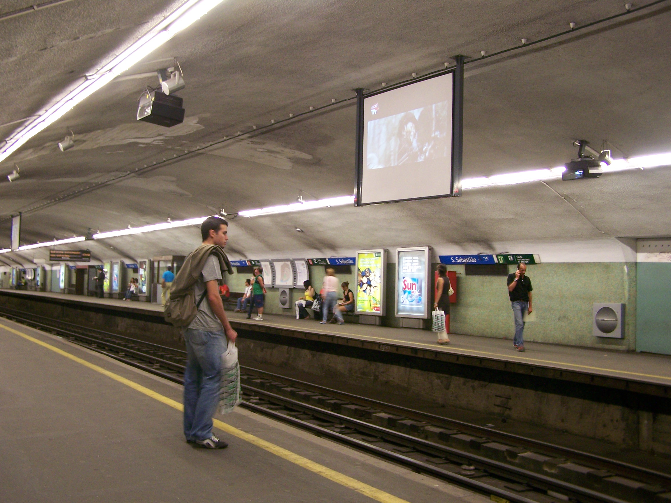 platform of the Lisbon Metro station São Sebastião, blue line